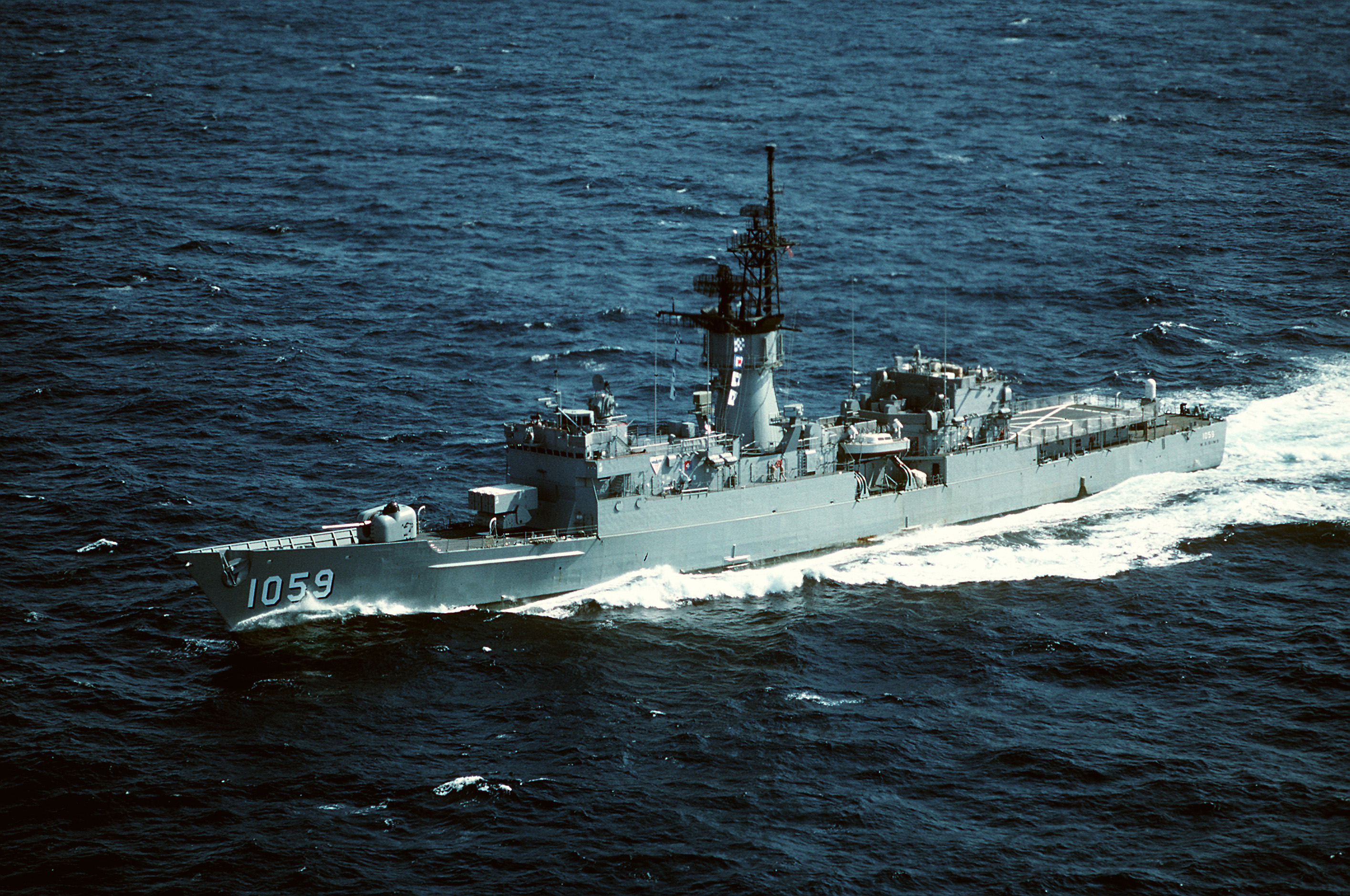 The U.S. Navy frigate USS W. S. Sims (FF-1059) underway during Fleet Week New York 1989.